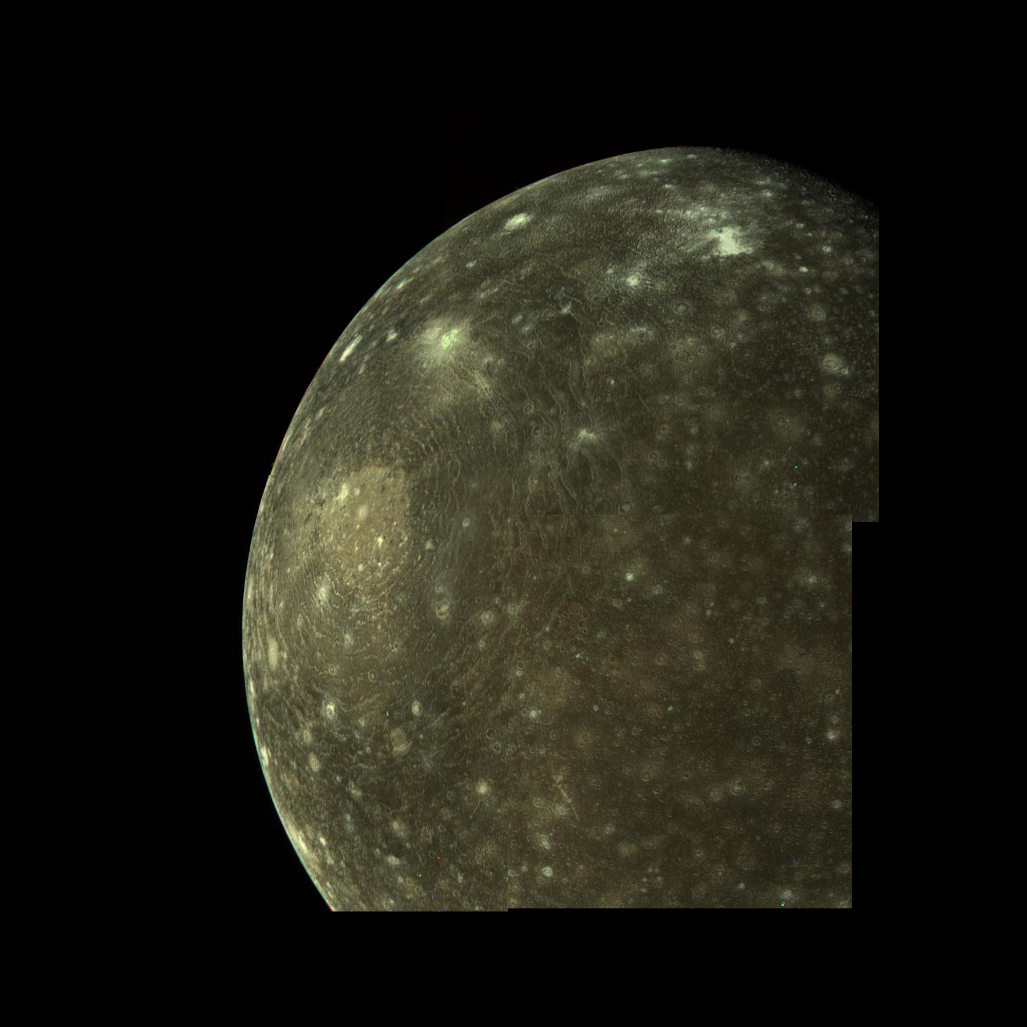 Callisto, second largest moon of Jupiter, as imaged by Voyager 1 on March 6, 1979. Mosaic of images taken at a distance of about 400.000 km. Original caption Callisto was revealed by the Voyager cameras to be a heavily cratered and hence geologically inactive world. This mosaic of Voyager 1 images, obtained on March 6 from a distance of about 400,000 kilometers, shows surface detail as small as 10 kilometers across. The prominent old impact feature Valhalla has a central bright spot about 600 kilometers across, probably representing the original impact basin. The concentric bright rings extend outward about 1500 kilometers from the impact center.